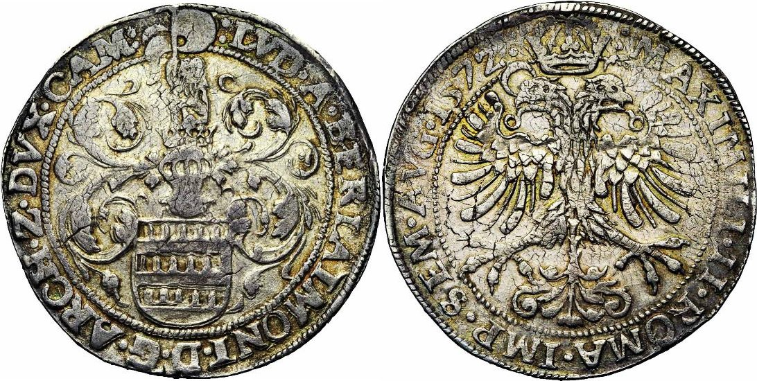 Coin (1572) from Archbishopry of Cambray, France. On the left: coat of arms of archbishop Louis of Berlaymont (1570-1596). Right: Habsburg coat of arms of emperor Maximilian II (1564 - 1576).